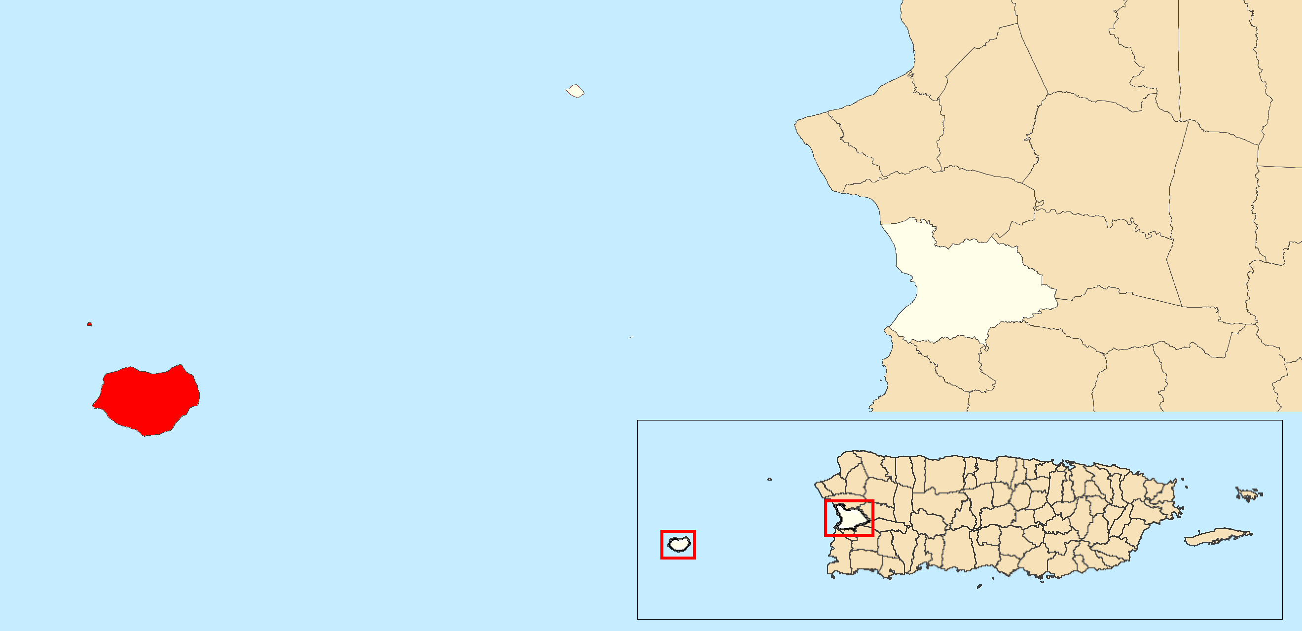 Isla de Mona e Islote Monito, Mayagüez, Puerto Rico locator map